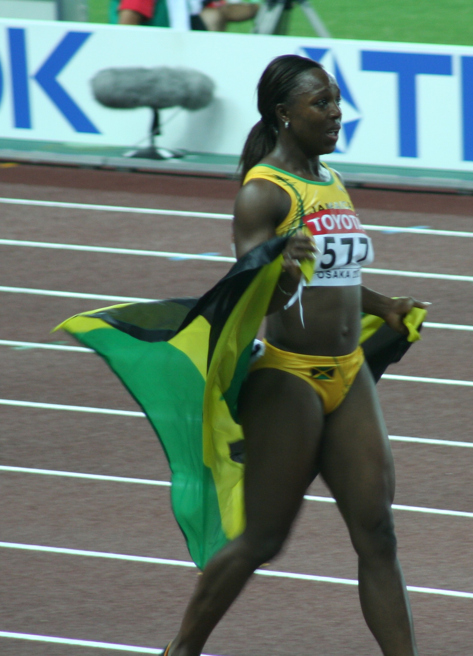 World Athletics Championships 2007 in Osaka - Women's 100 metres winner Veronica Campbell (Jamaica) celebrating her victory